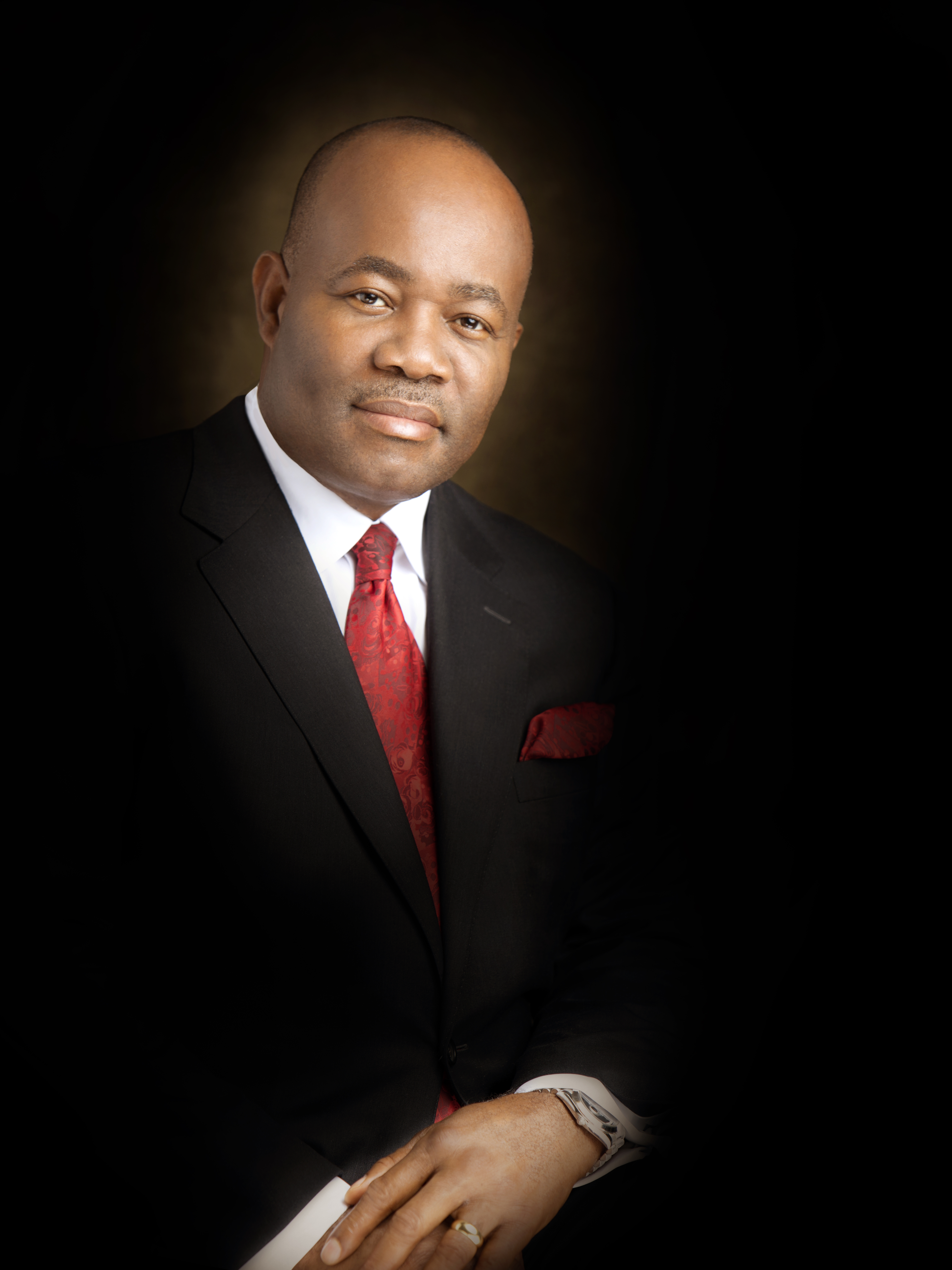 Portrait of Godswill Obot Akpabio